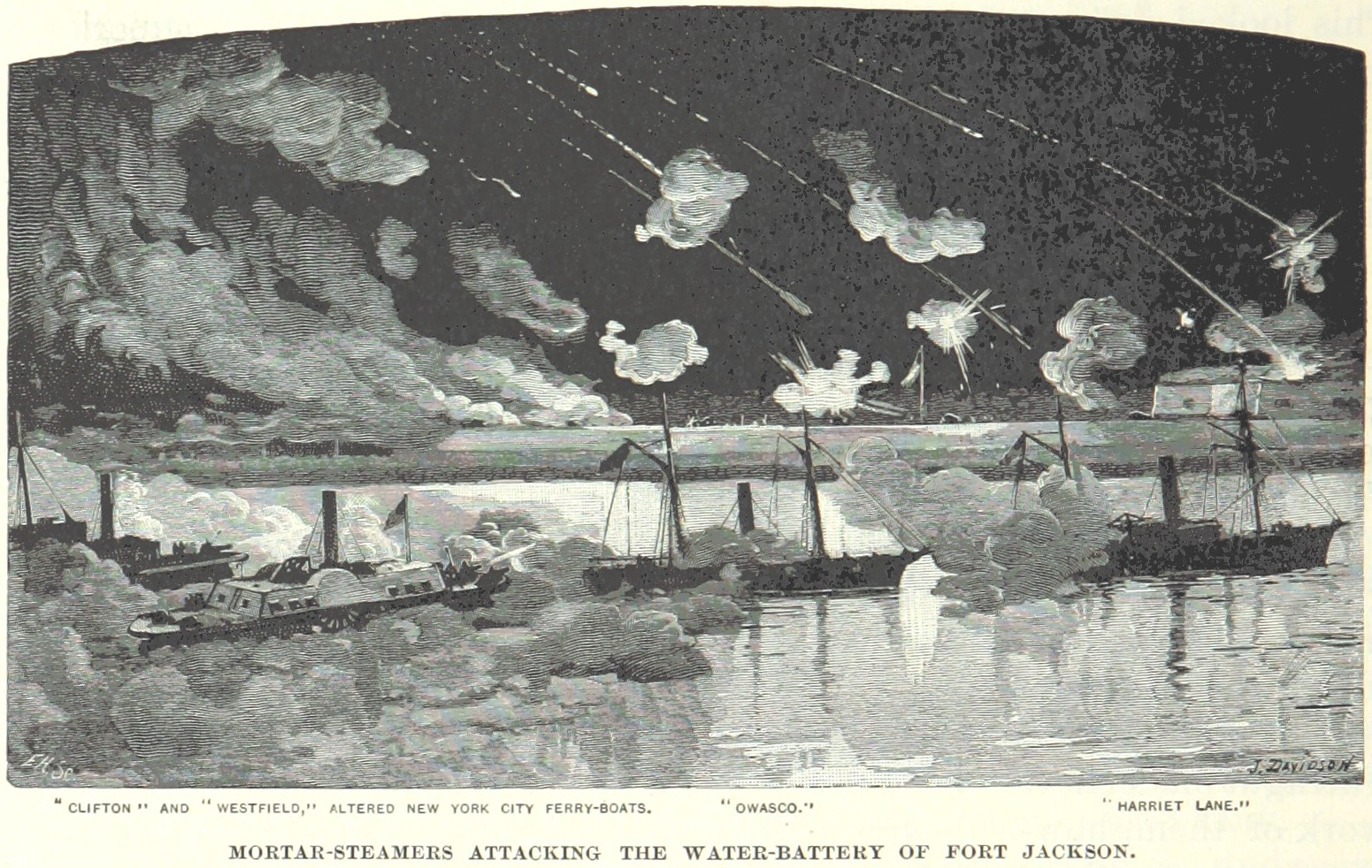 Union mortar steamers bombard Fort Jackson at the Battle of Forts Jackson and St. Philip. From left to right the ships are USS Clifton (1861), USS Westfield (1861), USS Owasco (1861), and USRC Harriet Lane (1857).